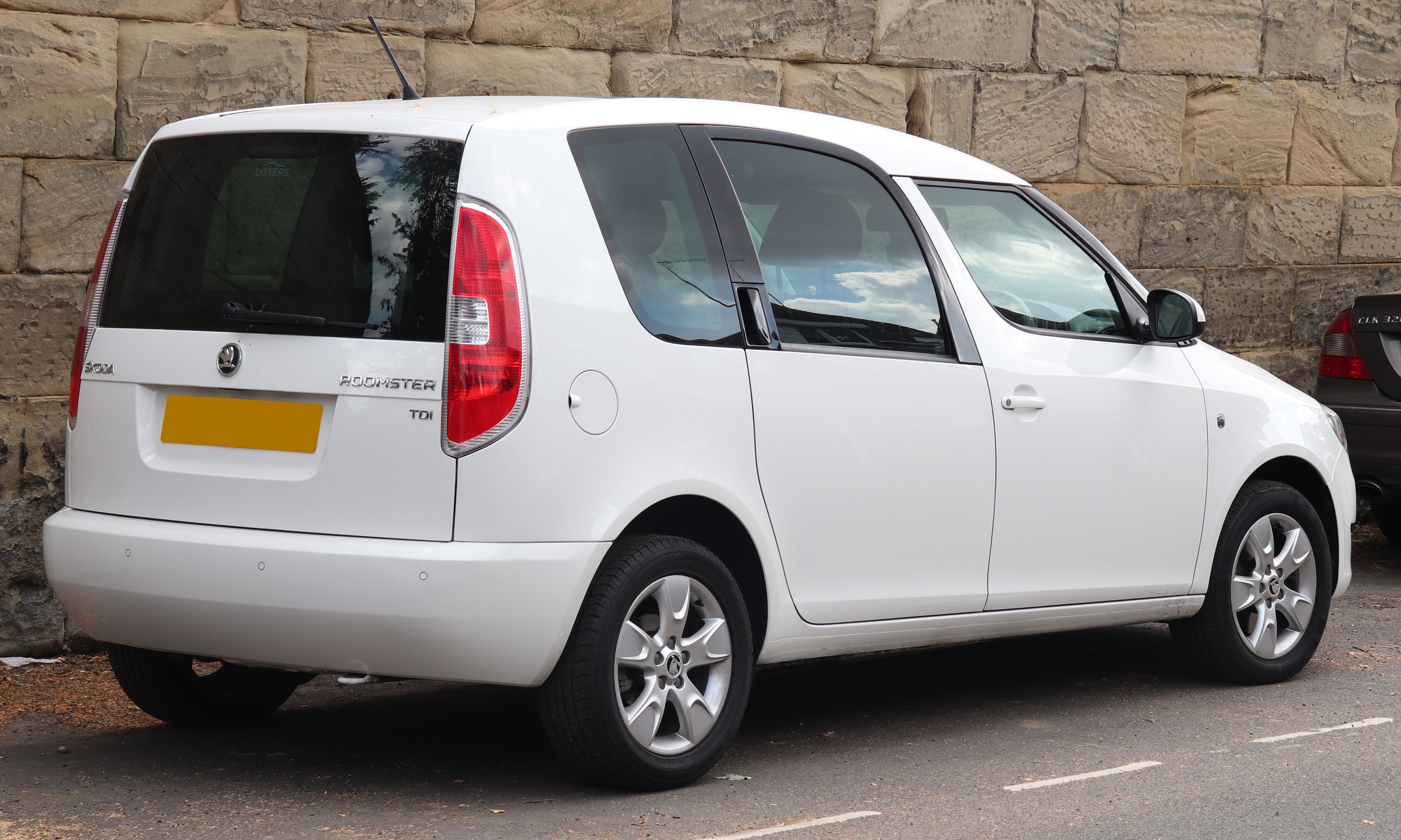 2014 Skoda Roomster SE TDi CR 1.6 Rear Taken in Warwick